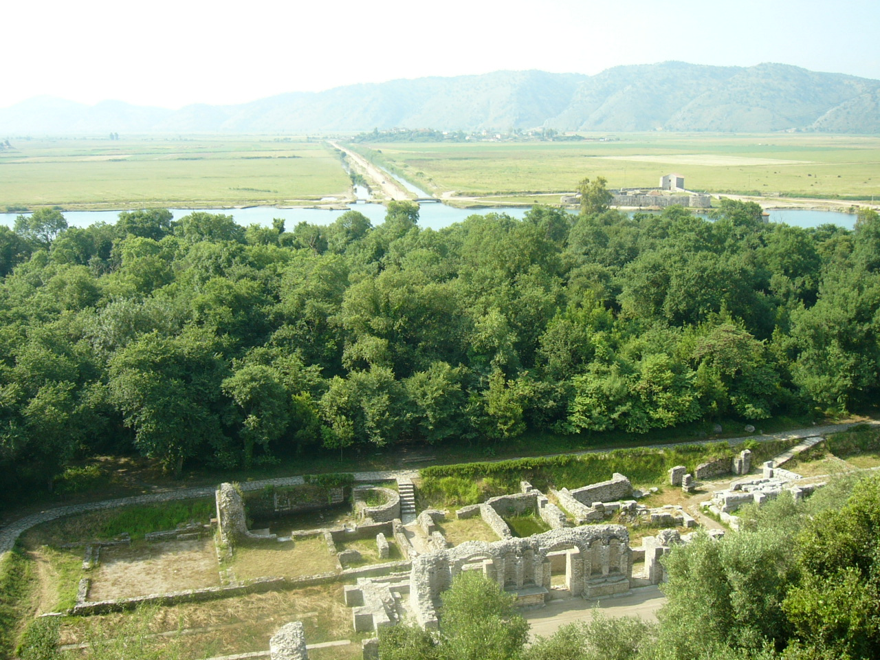 Butrint, Albania: View south from the fortress over Theatre, Agora, Roman Bath, Vivari Channel and Triangular Fortress